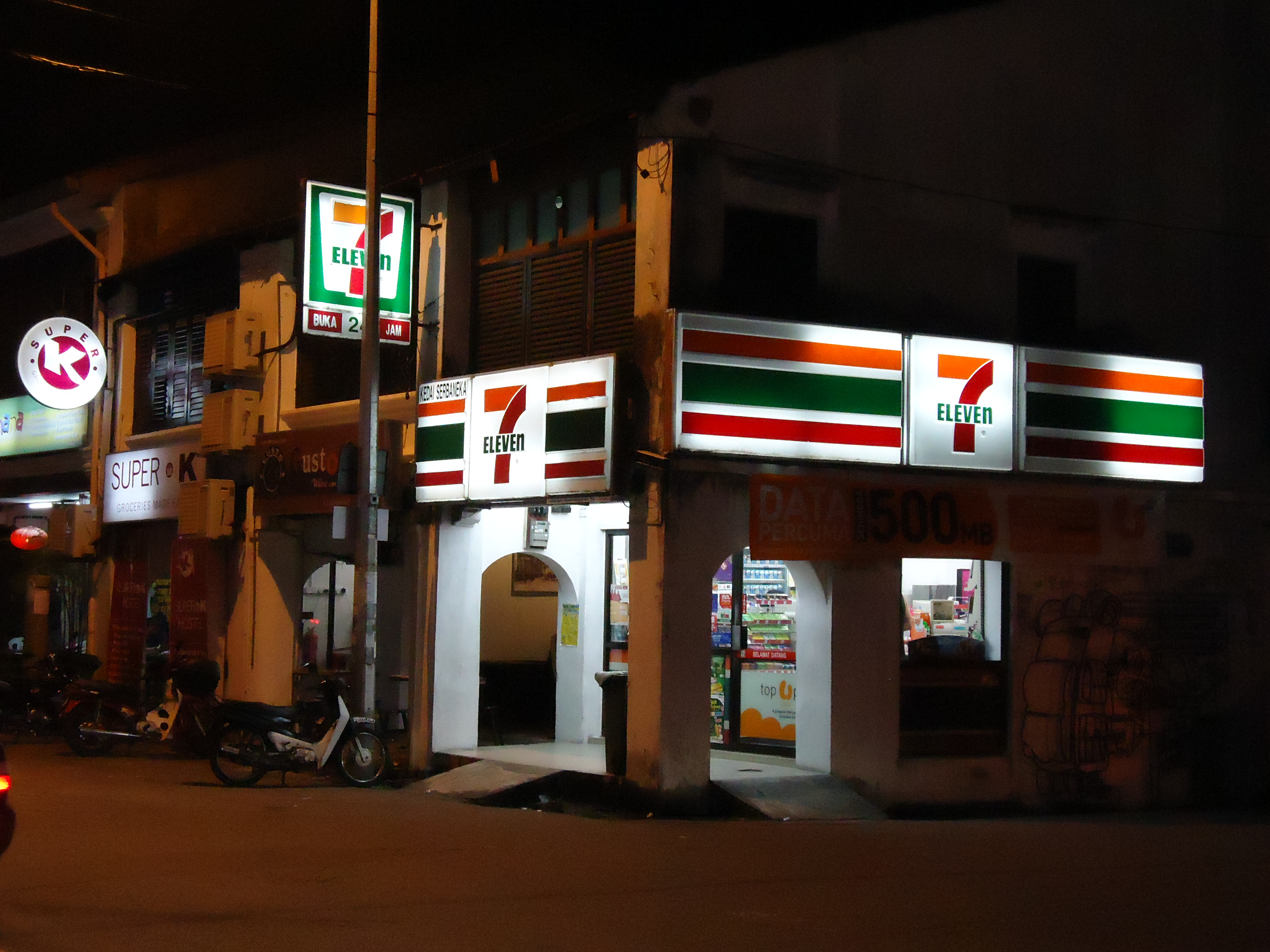 7-Eleven - (Georgetown, Penang, Malaysia, Nov. 2013)